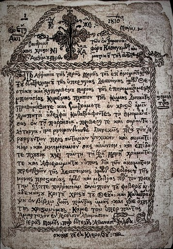 Document of Panagia Bounasia 1810